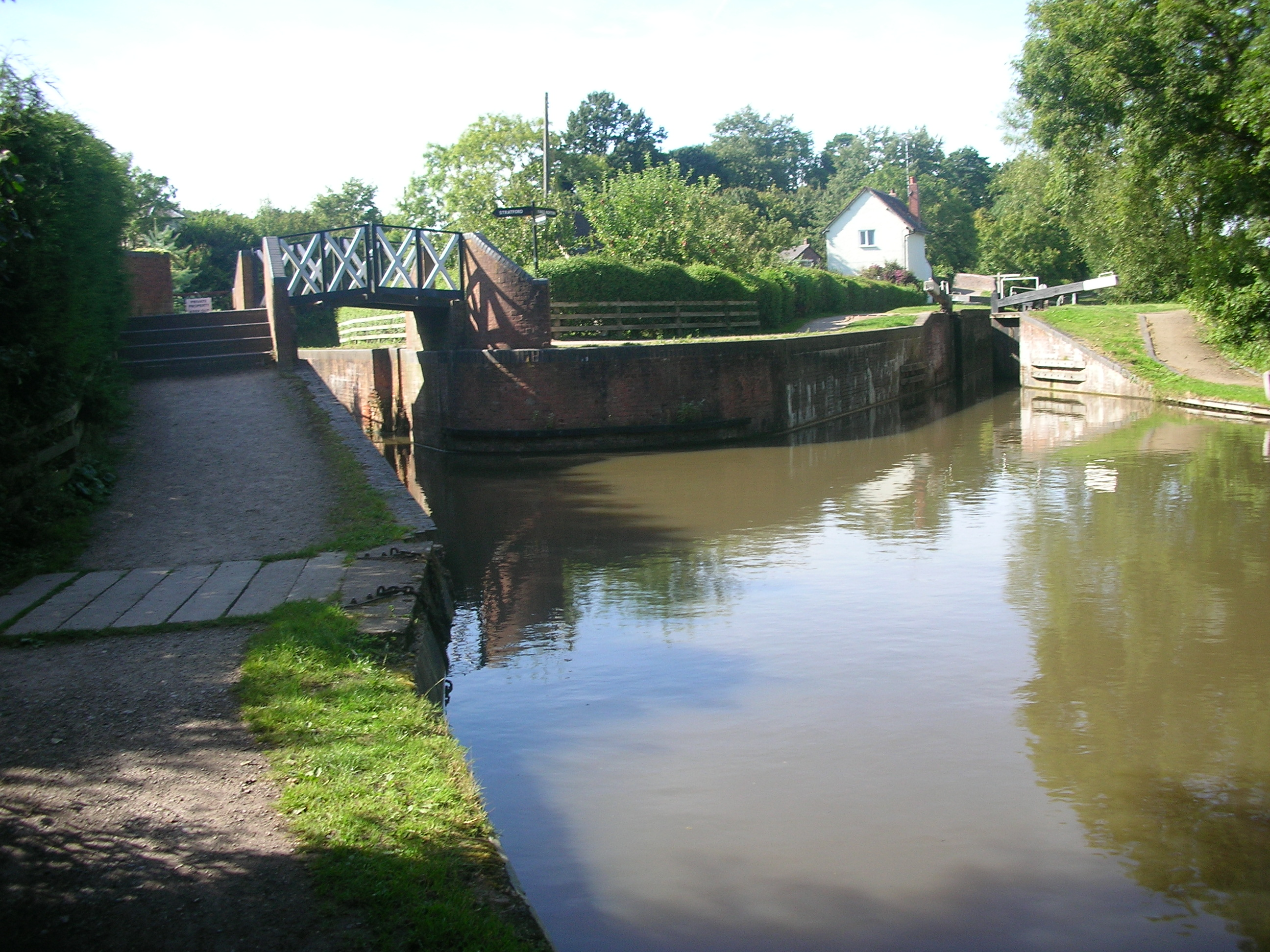 Kingswood Junction on the Stratford-upon-Avon Canal in Warwickshire, England. Lock 20 (right), leading from the connecting arm to the Northern Stratford. To the left is the lockless arm leading to the bottom of lock 21. Behind is the short spur to the Grand Union Canal. Photographed by me 10 August 2007. Oosoom